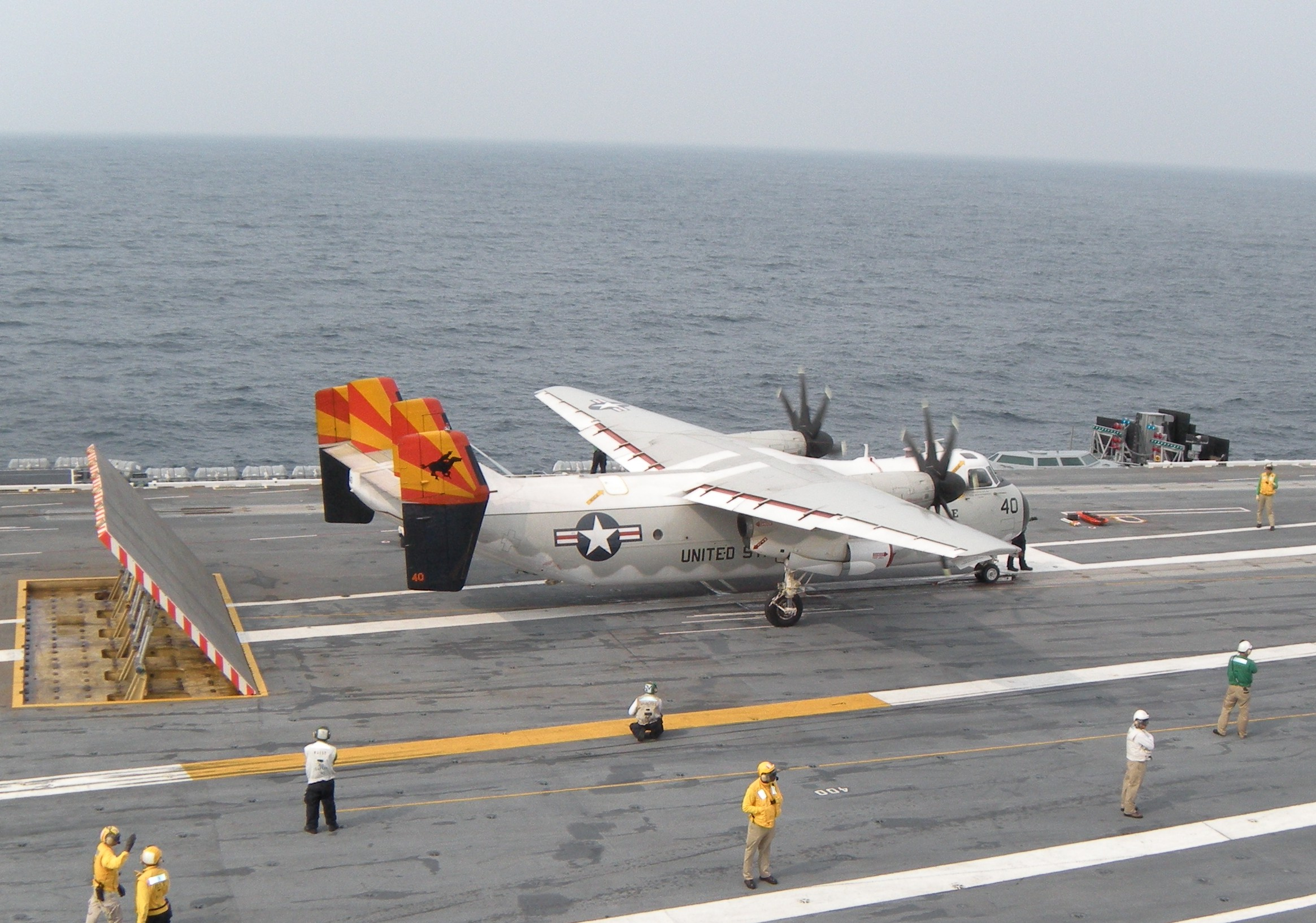 A U.S. Navy Grumman C-2A Greyhound of fleet logistics support squadron VRC-40 Rawhides is prepared for launch from catapult 3 aboard the aircraft carrier USS Carl Vinson (CVN-70) during flight deck certification off Virginia (USA) on 13 July 2009. Note that the C-2 is equipped with the 8-blade Navy Propeller 2000 (NP-2000).